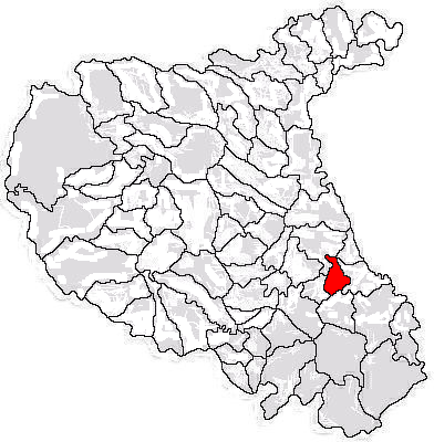 Map of limits of commune in Vrancea County